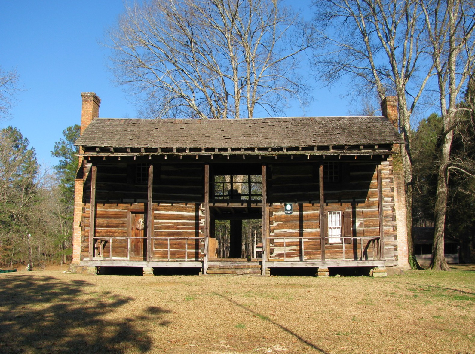 John Looney house at 4187 Greensport Rd. (Co. Rd. 24) in Ashville, Alabama. On the National Register of Historic Places.